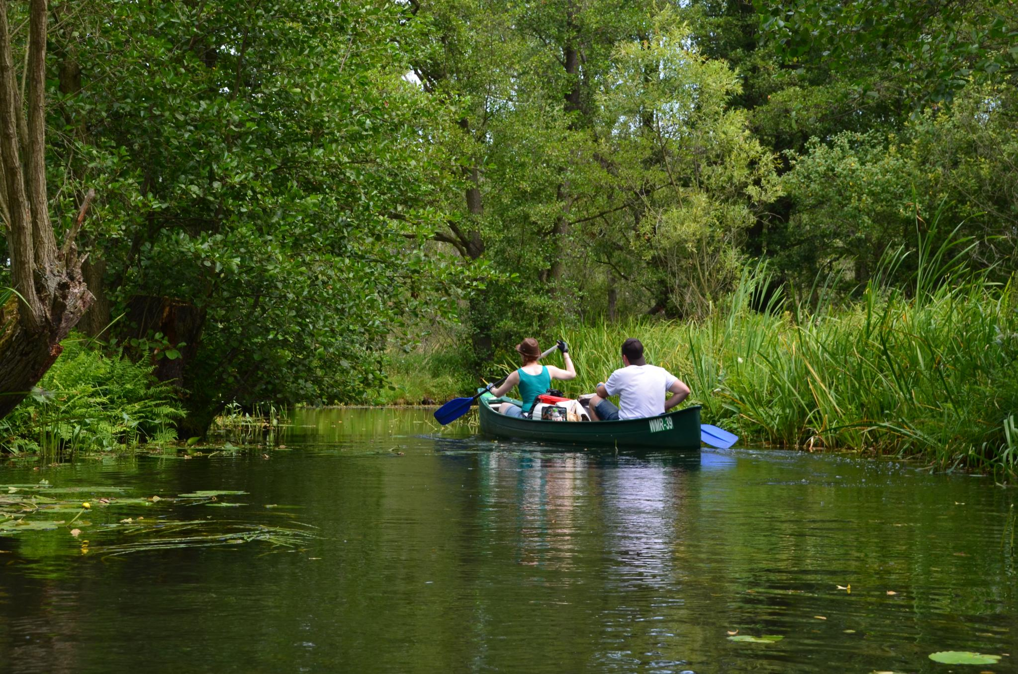 Spreewald Impressionen